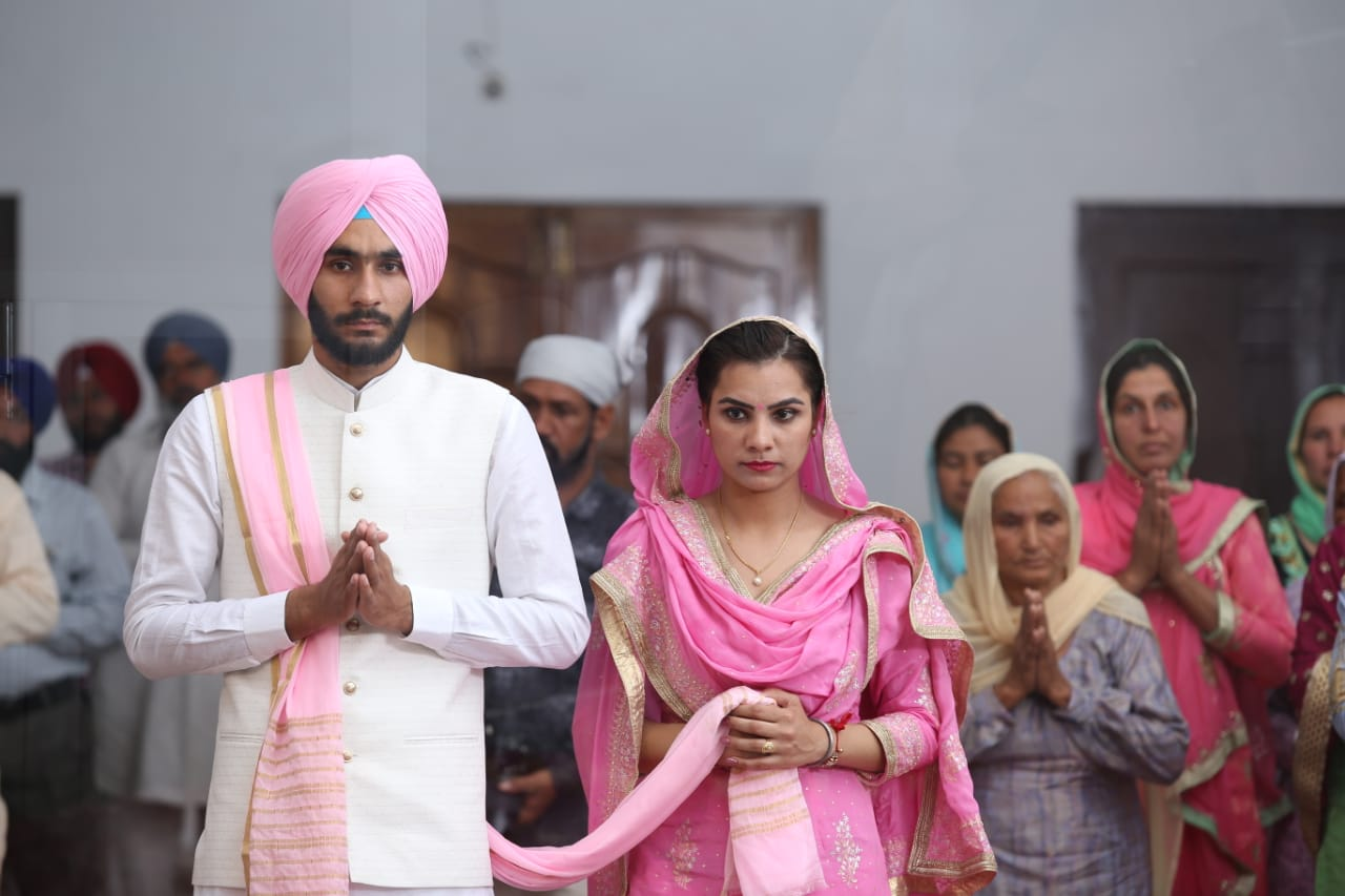 This photo has been taken in the country: India